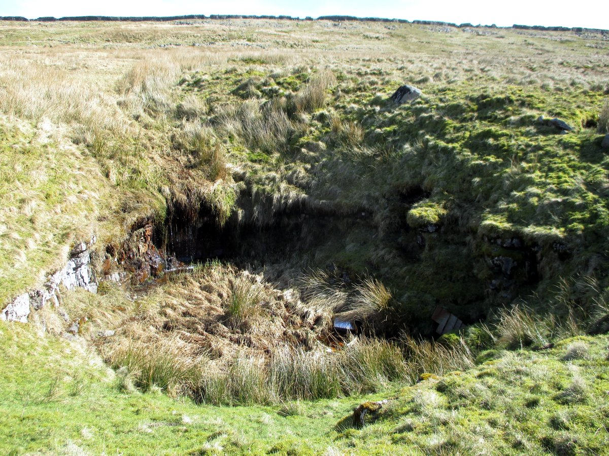 This shows the entrance shakehole of Oddmire Pot, a feeder into the Black Keld System in Wharfedale, Yorkshire, UK. The actual entrance is on the extreme right hand side of the shakehole